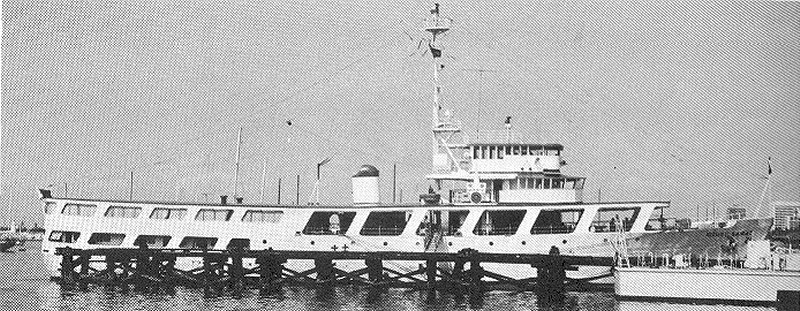 Mount Samat (TK 21) U.S. Navy photo by G. Arra